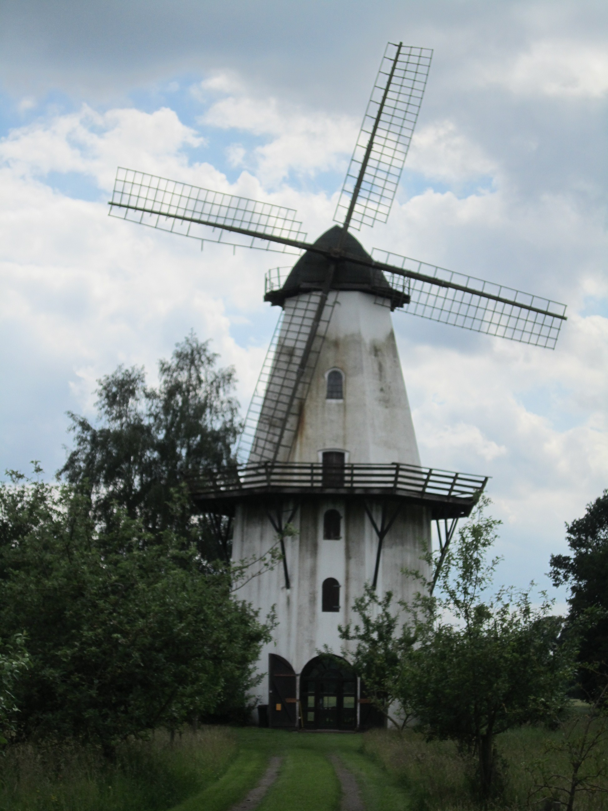 Windmill in Lavelsloh (Landkreis Nienburg, Lower Saxony)